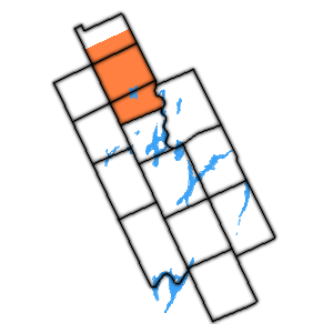 Map of Victoria County (Now city of Kawartha Lakes), with former township of Laxton, Digby and Longford (Amalgamated) highlighted in orange.